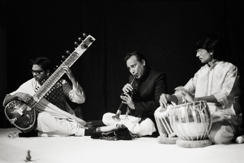 Music Ensemble of Benares, Indian classical music Pandit Shivanath Mishra, sitar Ustad Khadim Ali Khan, shanai Pandit Prakash Maharaj, tabla Moers, Germany, 1983